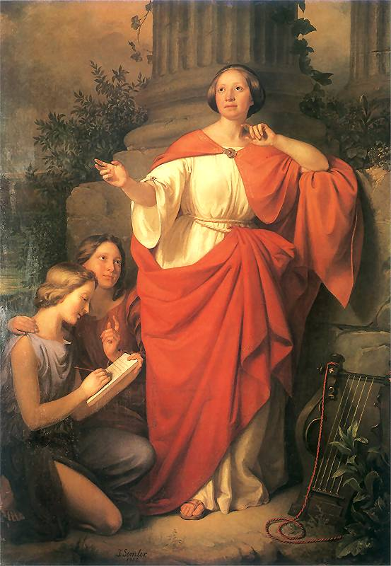 Portrait of Jadwiga Łuszczewska Alternative title(s): Diotima Deotymy